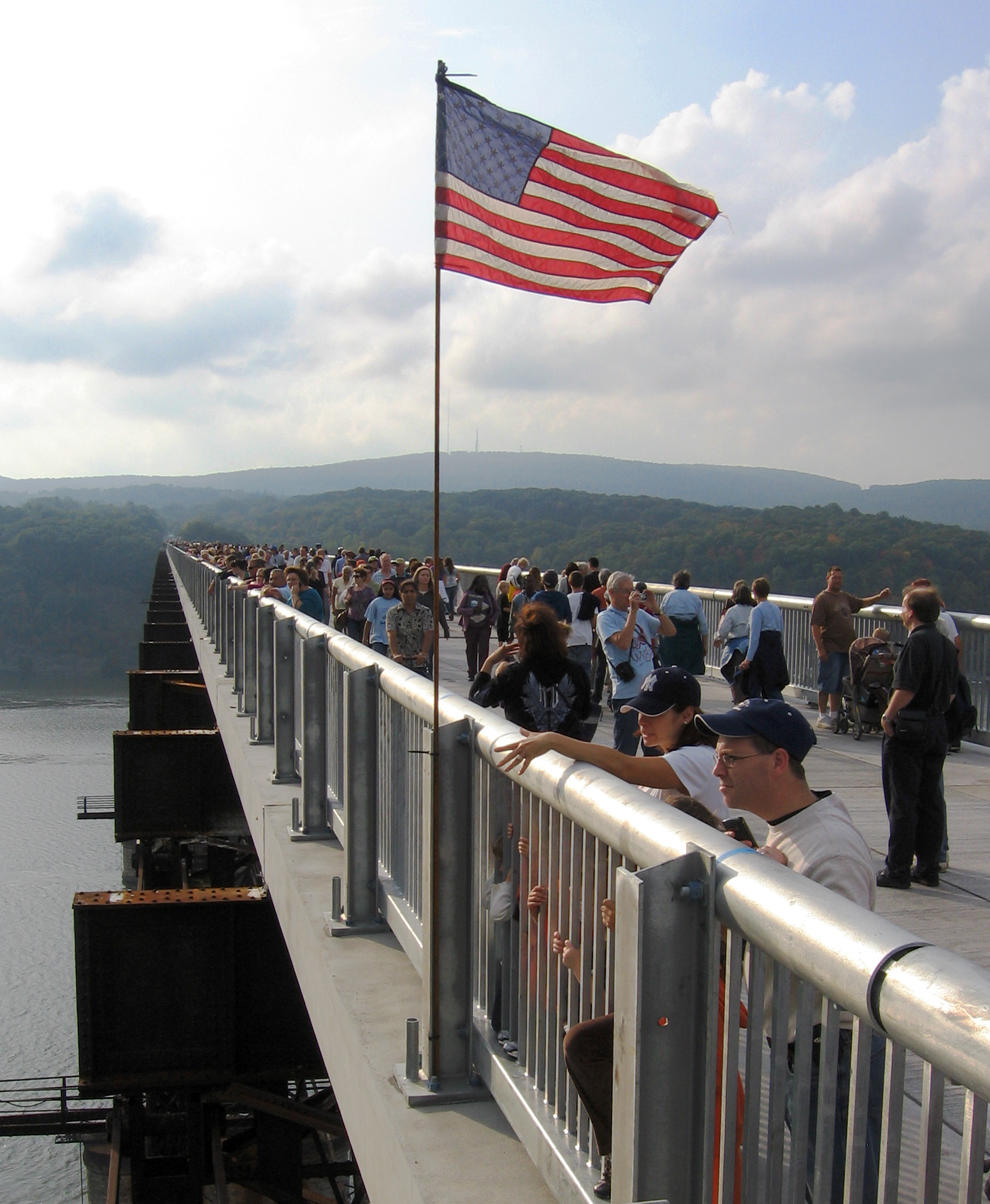 Looking west at opening day crowd using the Walkway over the Hudson.